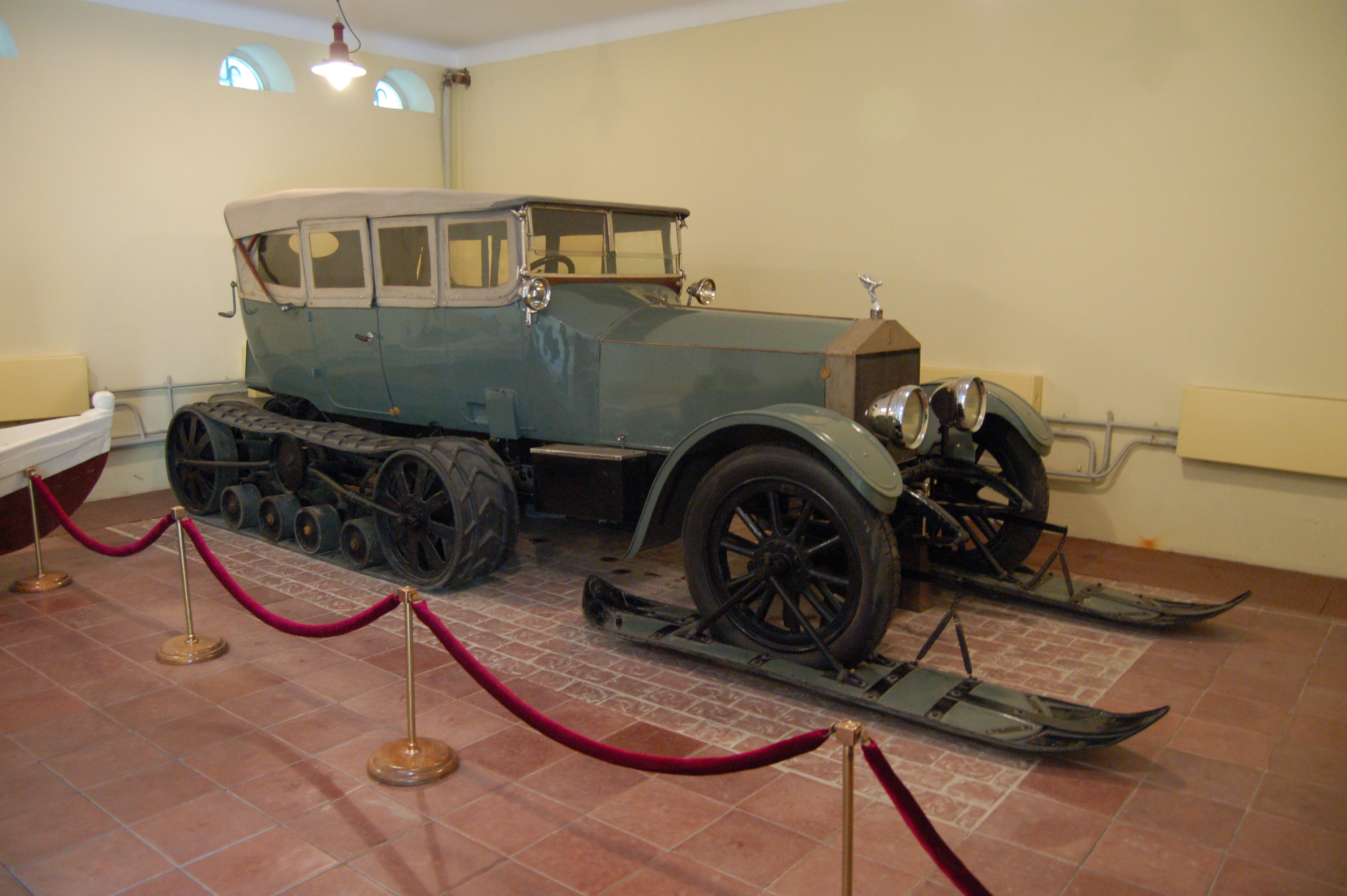 Restoration of a 1914 Rolls Royce Silver Ghost (which was converted into this "track-sled" form by Adolphe Kégresse for Nicholas II of Russia in 1916, and later used by Vladimir Lenin) featured at the Gorki Leninskiye manor-museum. (Note: The treads on the Kégresse Track appear to have been inverted in this restoration, as numerous original, historical photographs of Nicholas II of Russia's Automobiles all show the "V" pattern on the treads pointed downwards, rather than upwards like in this restoration).